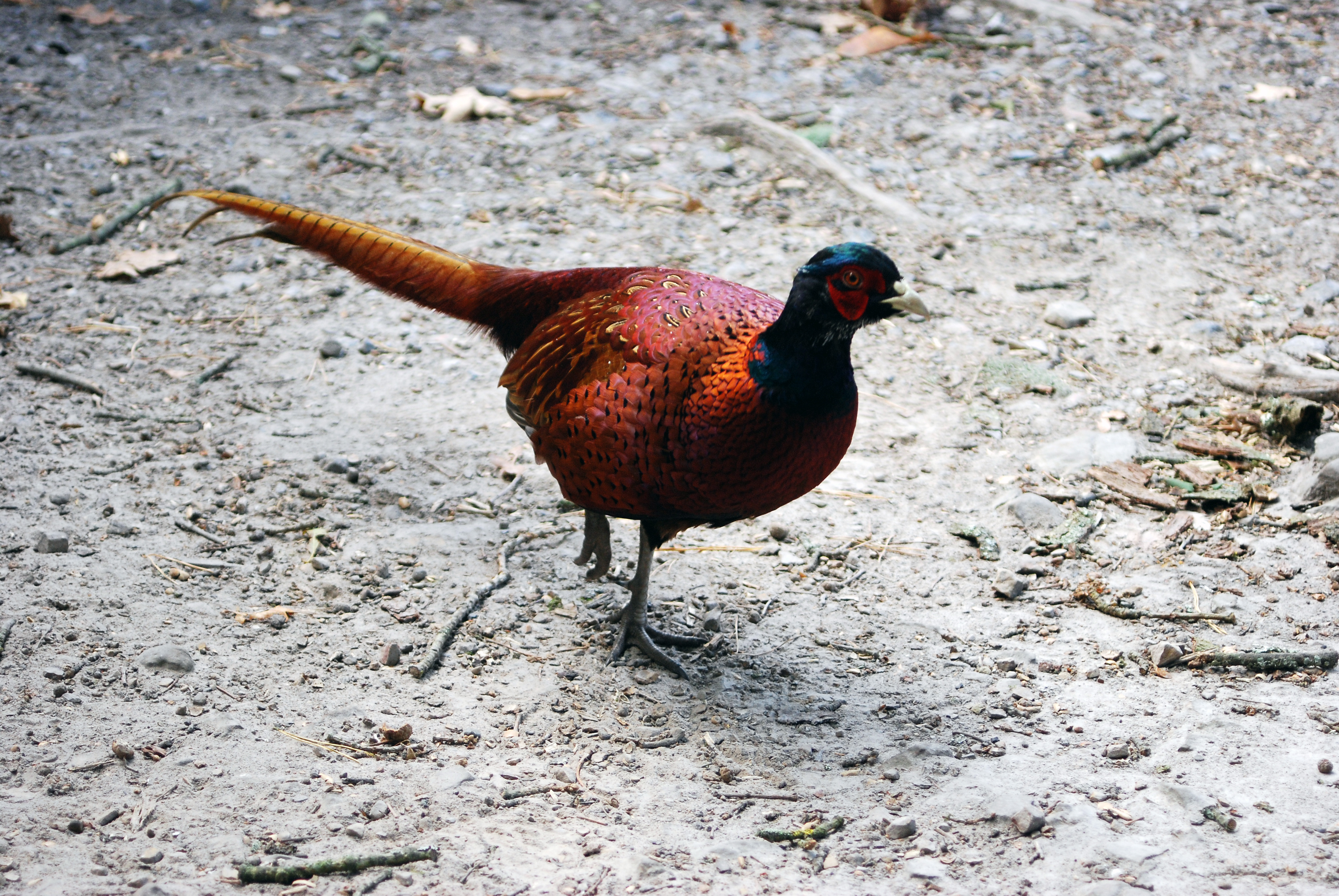 Wakehurst Place,Oct 2009